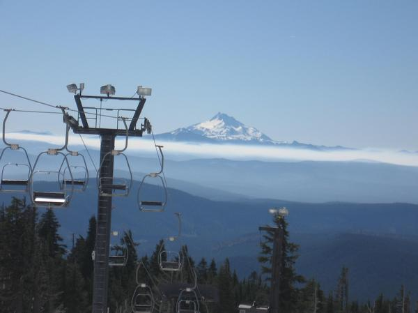 A view of Mt. Jefferson from Timberline Ski Area With Bruno Chair in the foreground.